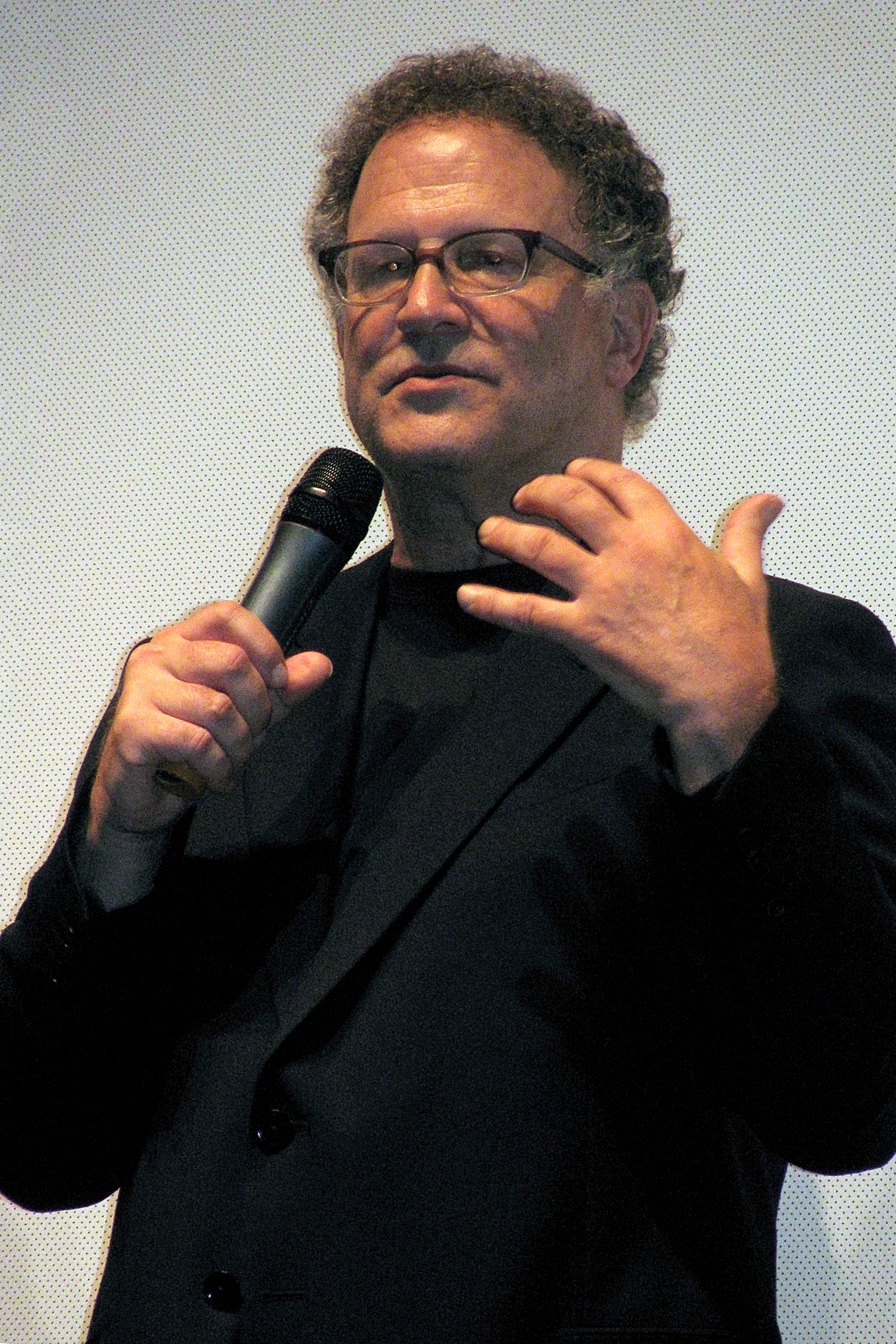 Albert Brooks at 'Drive' premiere TIFF 9/10/11